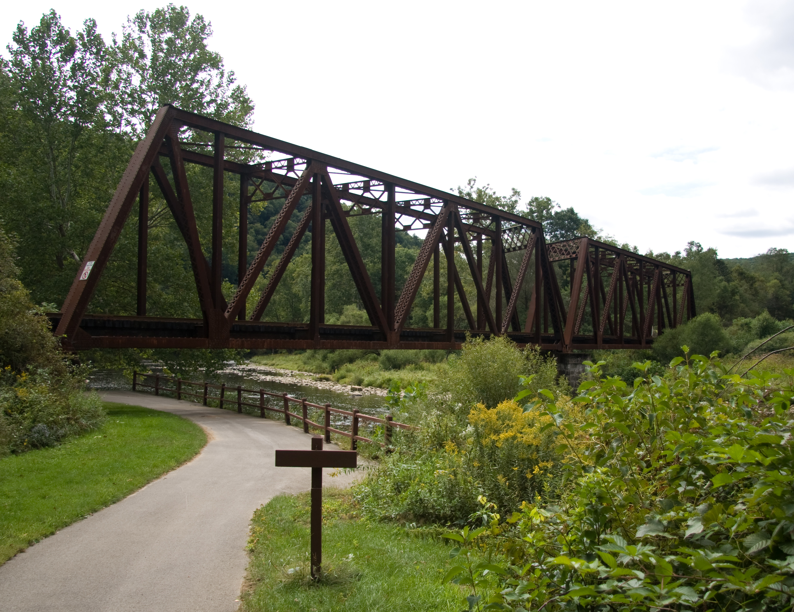 A historic rail crossing of the Oil Creek and Titusville Railroad at Oil Creek State Park.